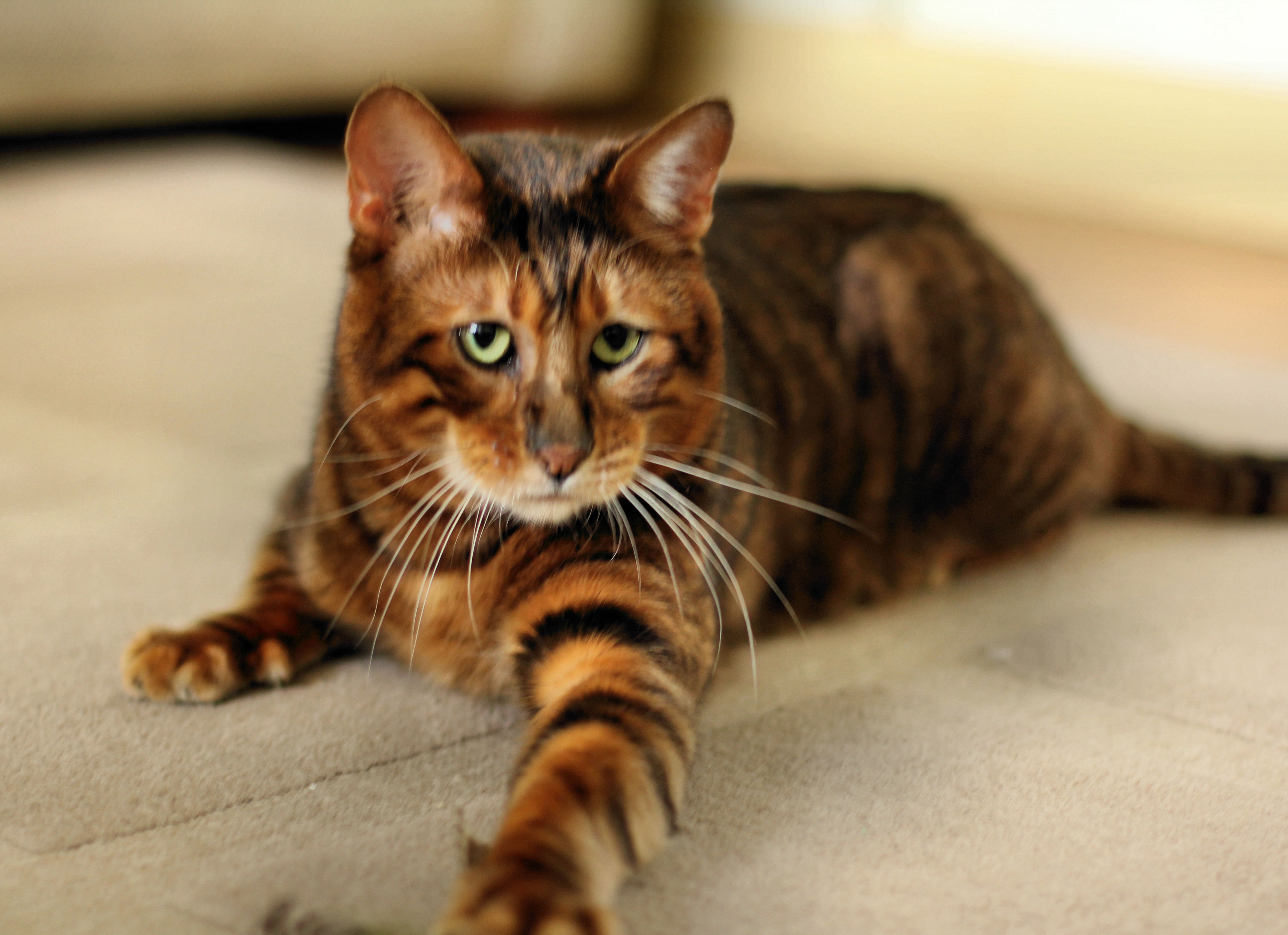 Toyger male at Queenanne Cats in the UK